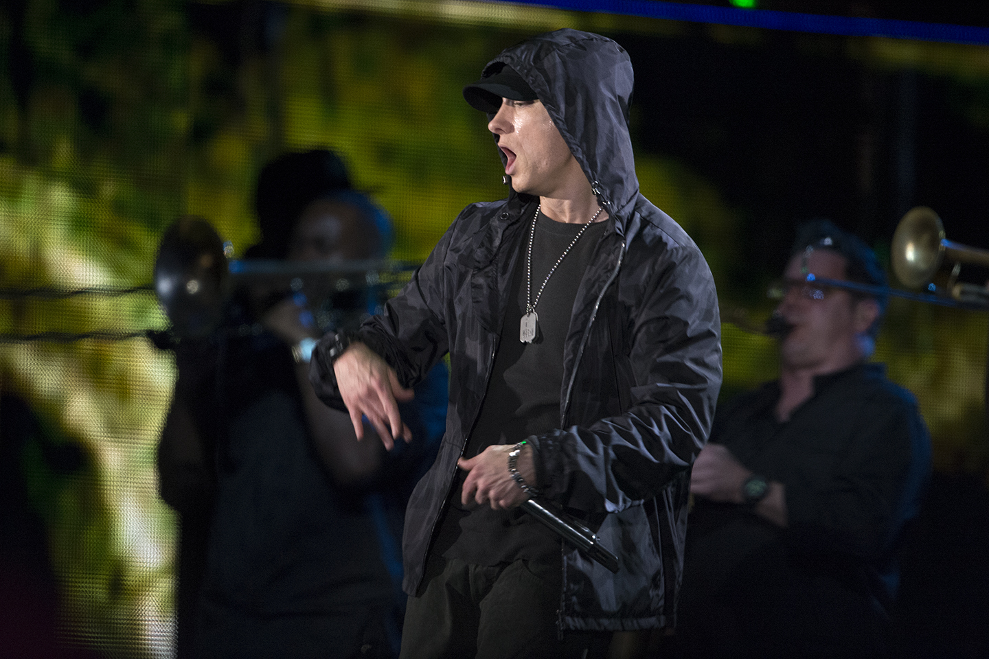 Eminem raps with a live band during The Concert for Valor in Washington, D.C. Nov. 11, 2014. DoD News photo by EJ Hersom